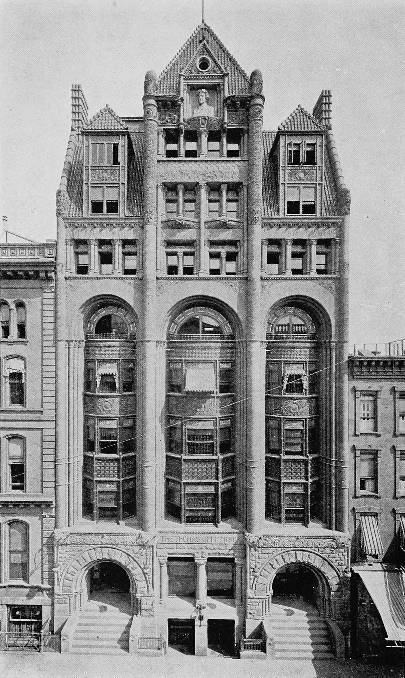 Thomas Jefferson Association Building, Brooklyn, New York. Designed by Frank Freeman and built 1889-90, it was demolished in 1960.